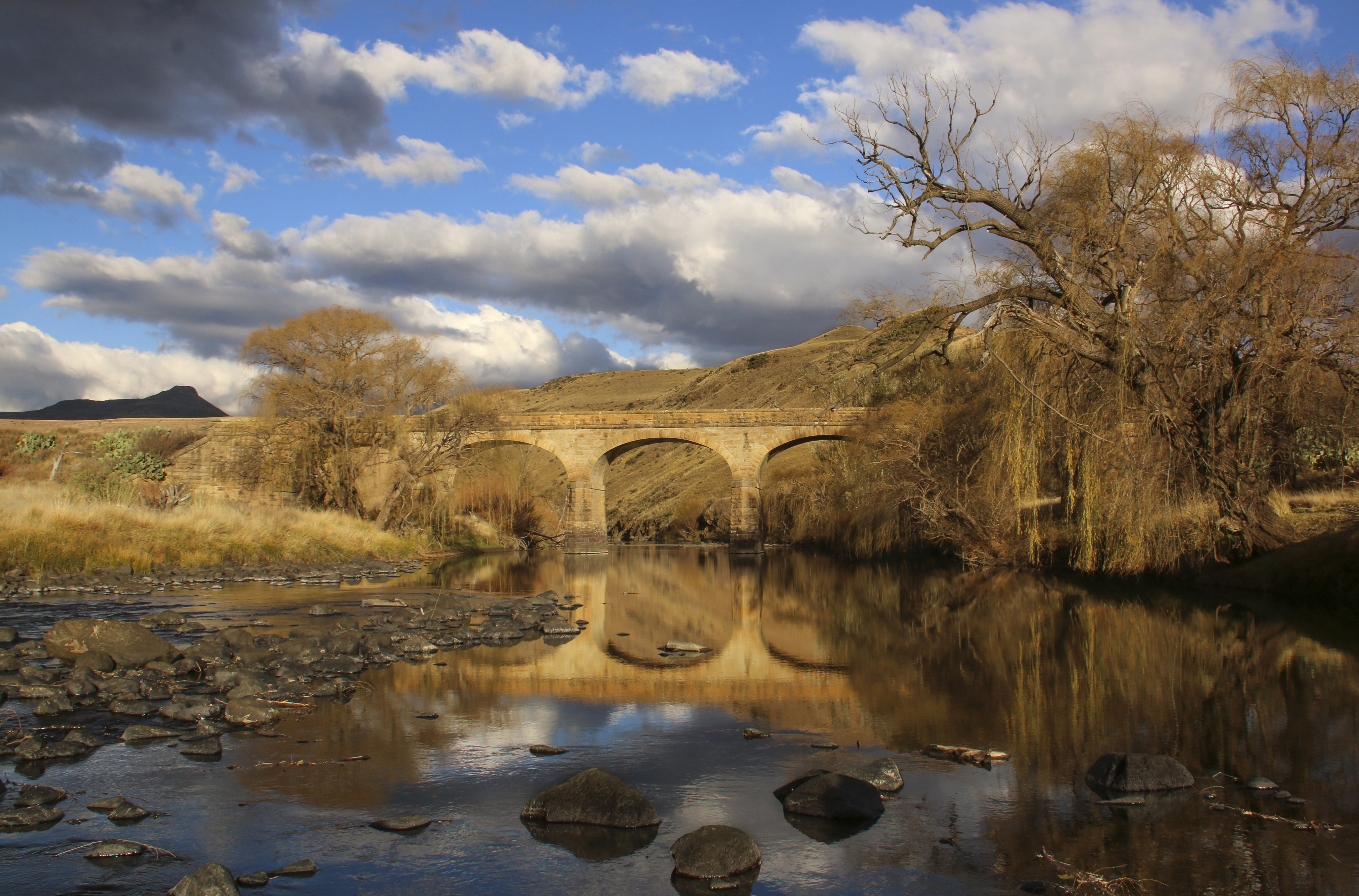 This media shows a South African Protected Site with SAHRA file reference 9/2/007/0004.